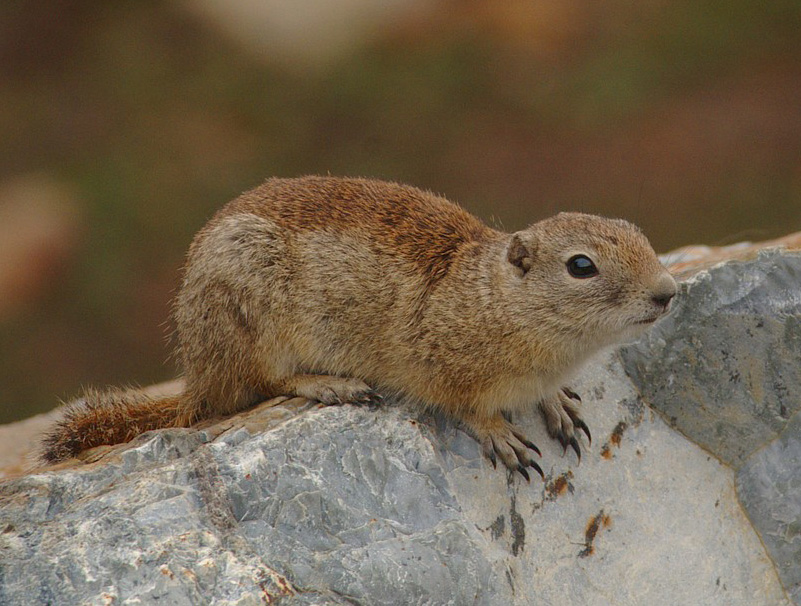 Belding's Ground Squirrel from Yosemite National Park, California